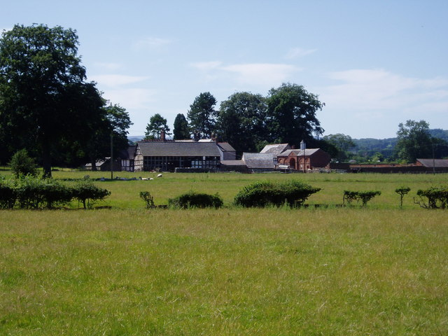 Cefn Coch. 17th century farm, south-east of Ruthin